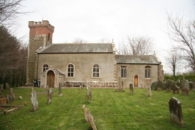 Holy Trinity church Medieval greenstone and 18th century brick together in Holy Trinity church